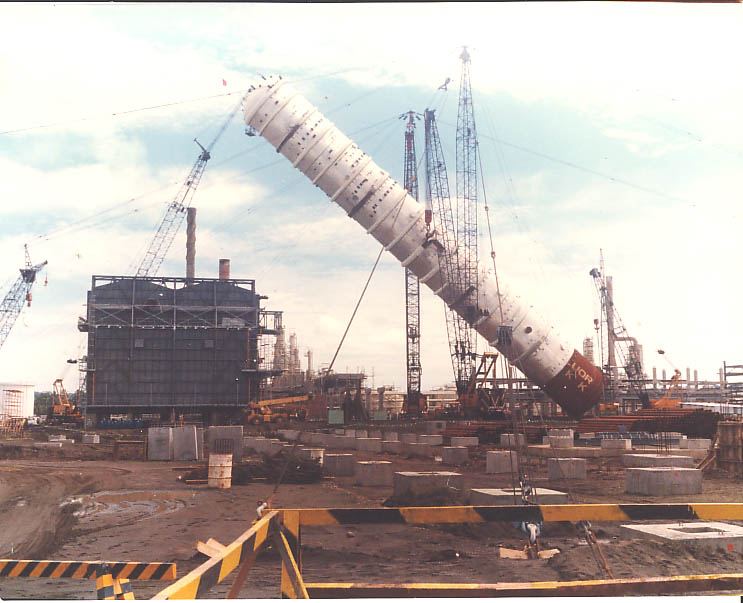 Installation of cracker Pertamina Refinery Cilacap Indonesia